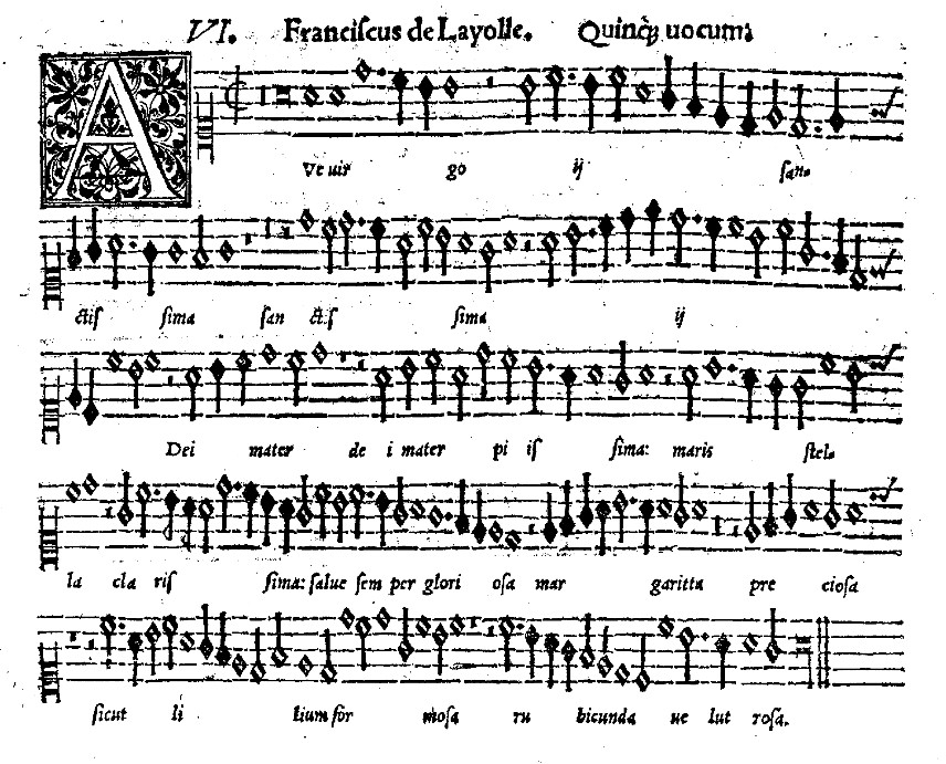 Beginning of Francesco Layolle's motet Ave virgo sanctissima (1568)